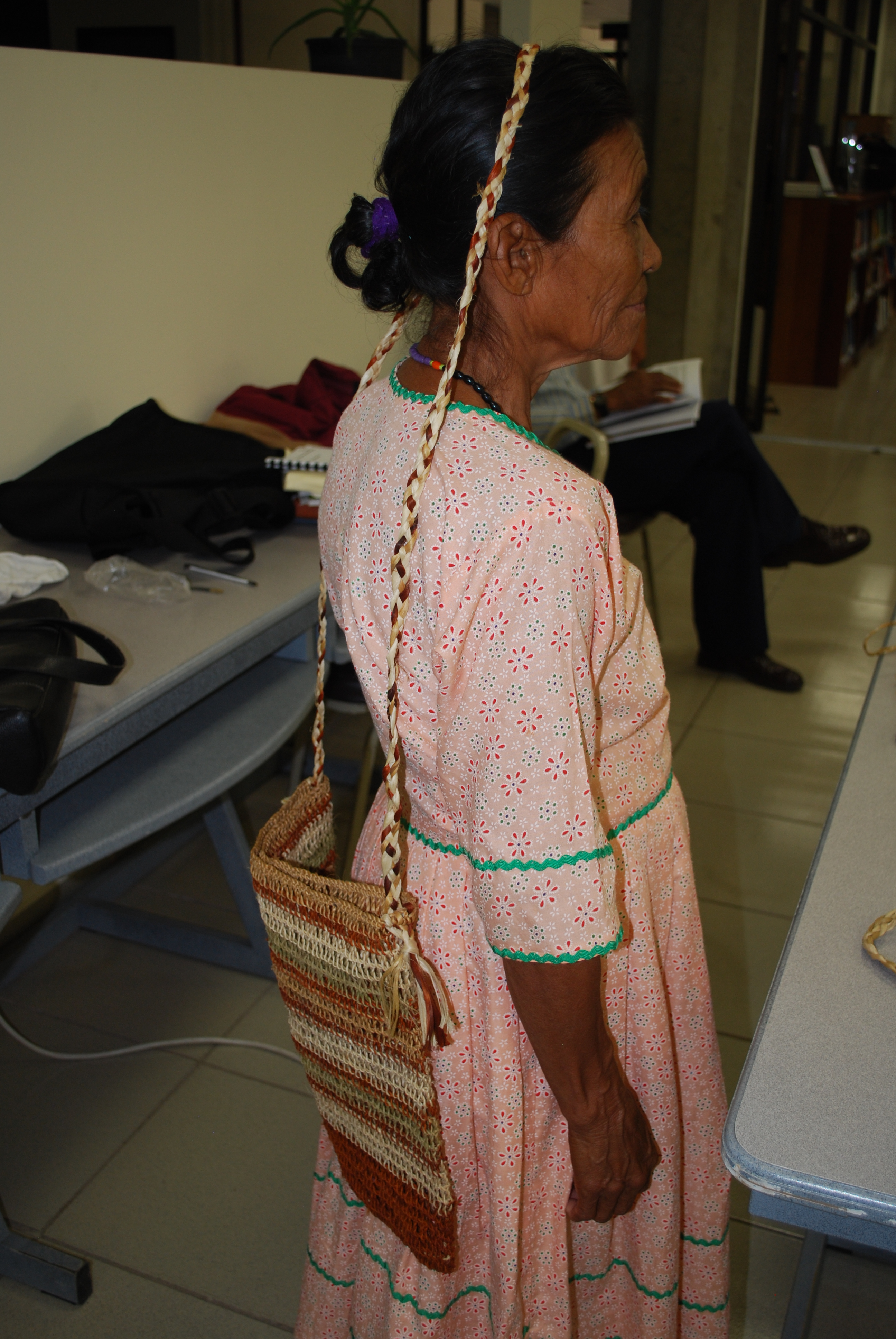 Juana Hernández Torres demonstrating the use of a hand woven carry bag